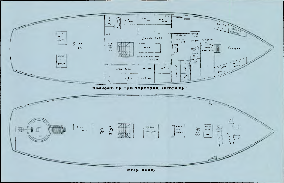 Diagram of the Pitcairn schooner included in the souvenir book published by the Pacific Press